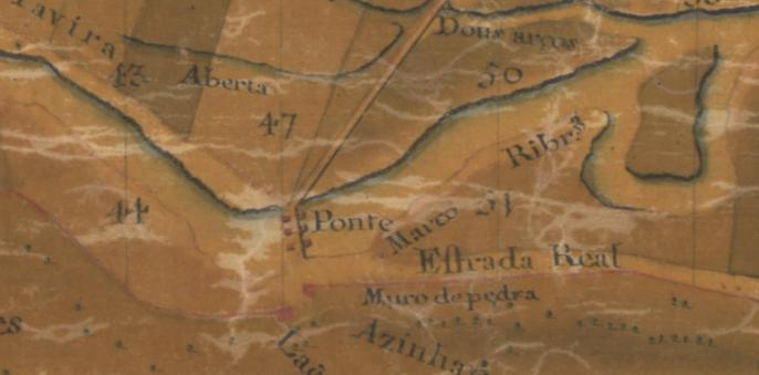 Excerpt of an old map, showing the old, medieval bridge under the River Almargem.